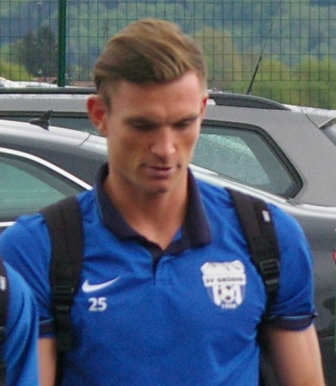 Cropped from File:SV Grödig gegen FC Red Bull Salzburg Mai 2015 17.JPG.